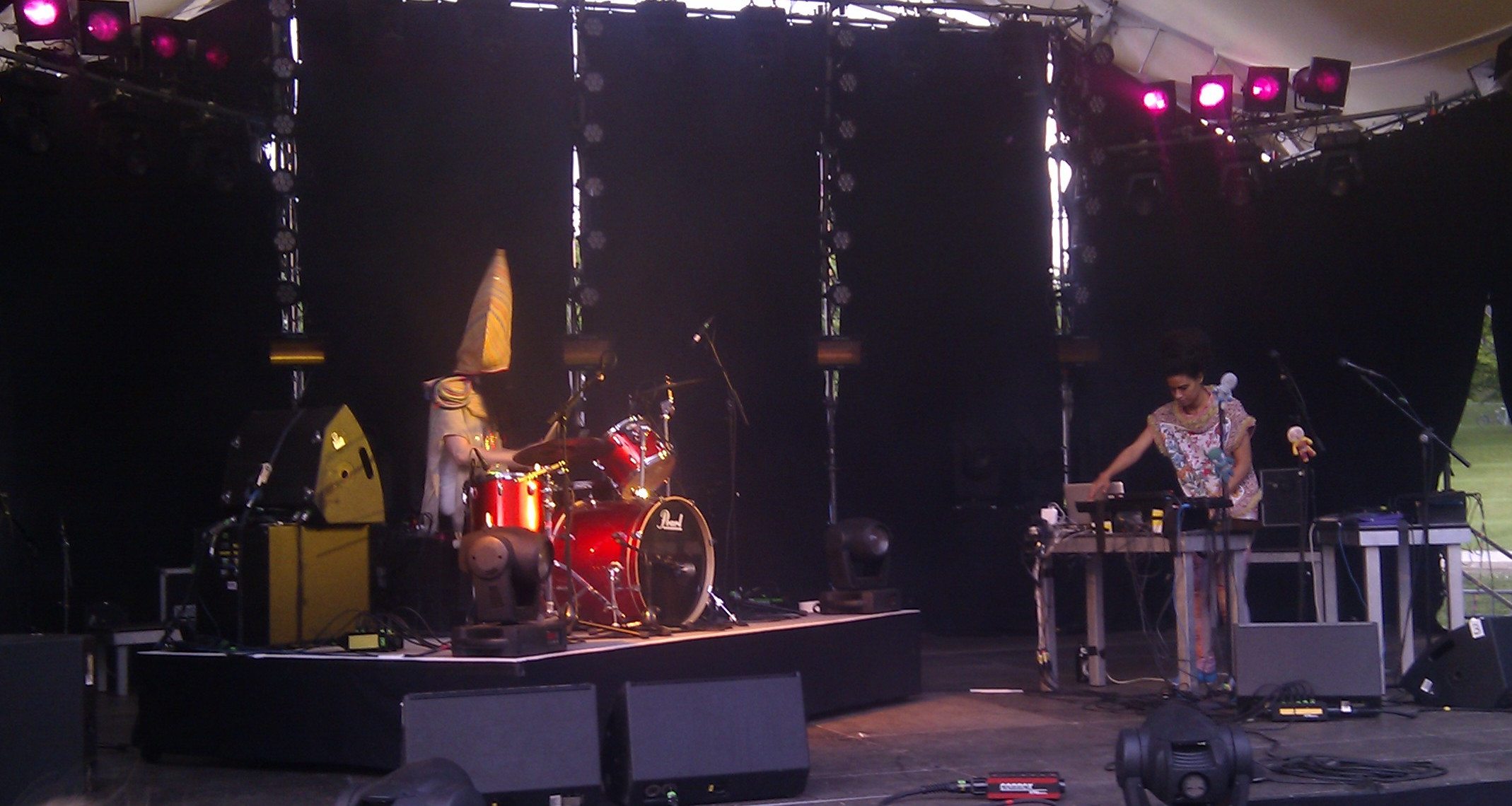 Oy (Joy Frempong and Marcel Blatti aka Lleluja-Ha) at Pfingsttheatron 2013, Munich, Germany